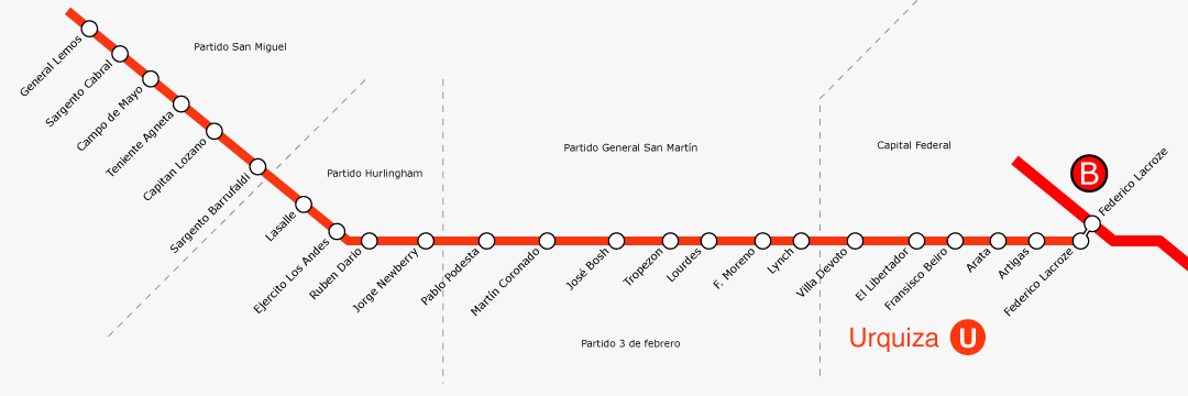 Map of the suburban electric commuter Urquiza Line, Línea Urquiza (Buenos Aires)